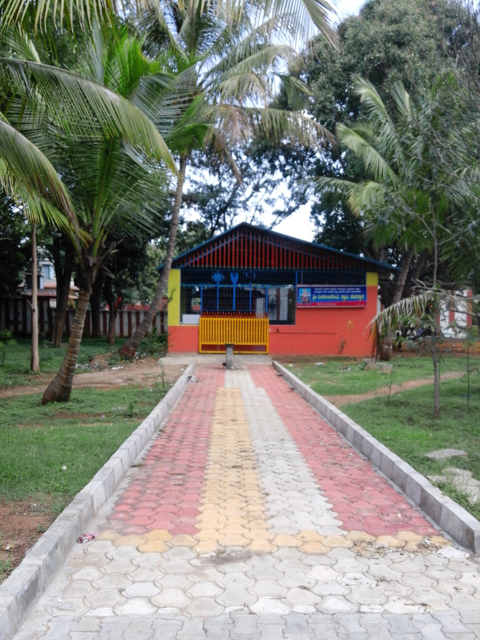 Mandya district, Karnataka state, India.